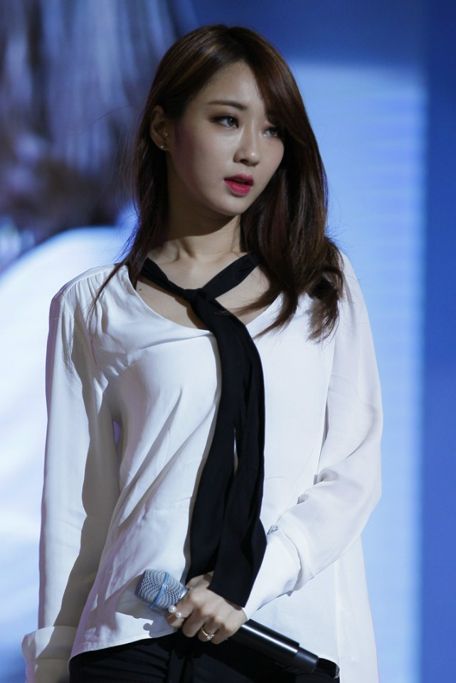 Kyungri at Korean Wave Fashion Festival, 28 November 2015